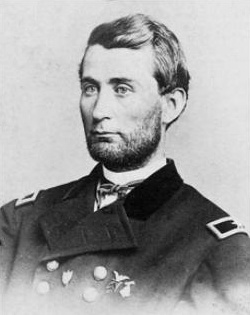 Smith Dykins Atkins (1836 – 1913)